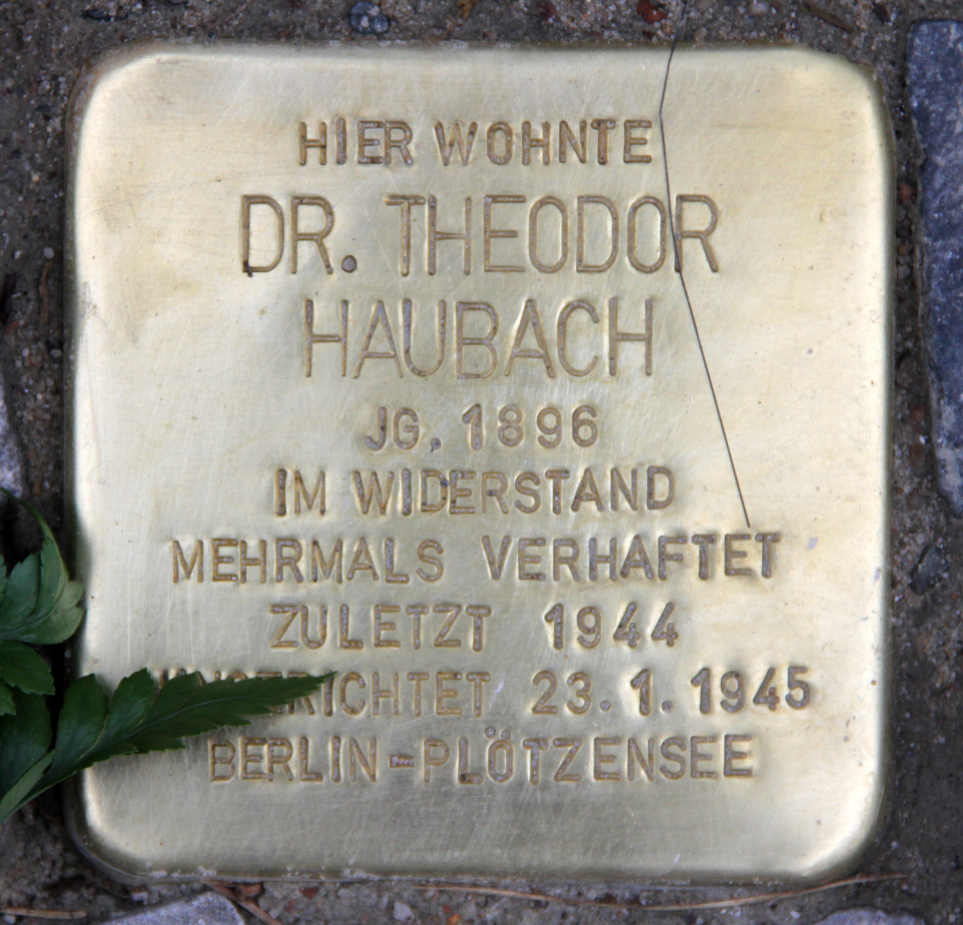 "Stolperstein" (stumbling block), Theodor Haubach, Falterweg 11, Berlin-Westend, Germany